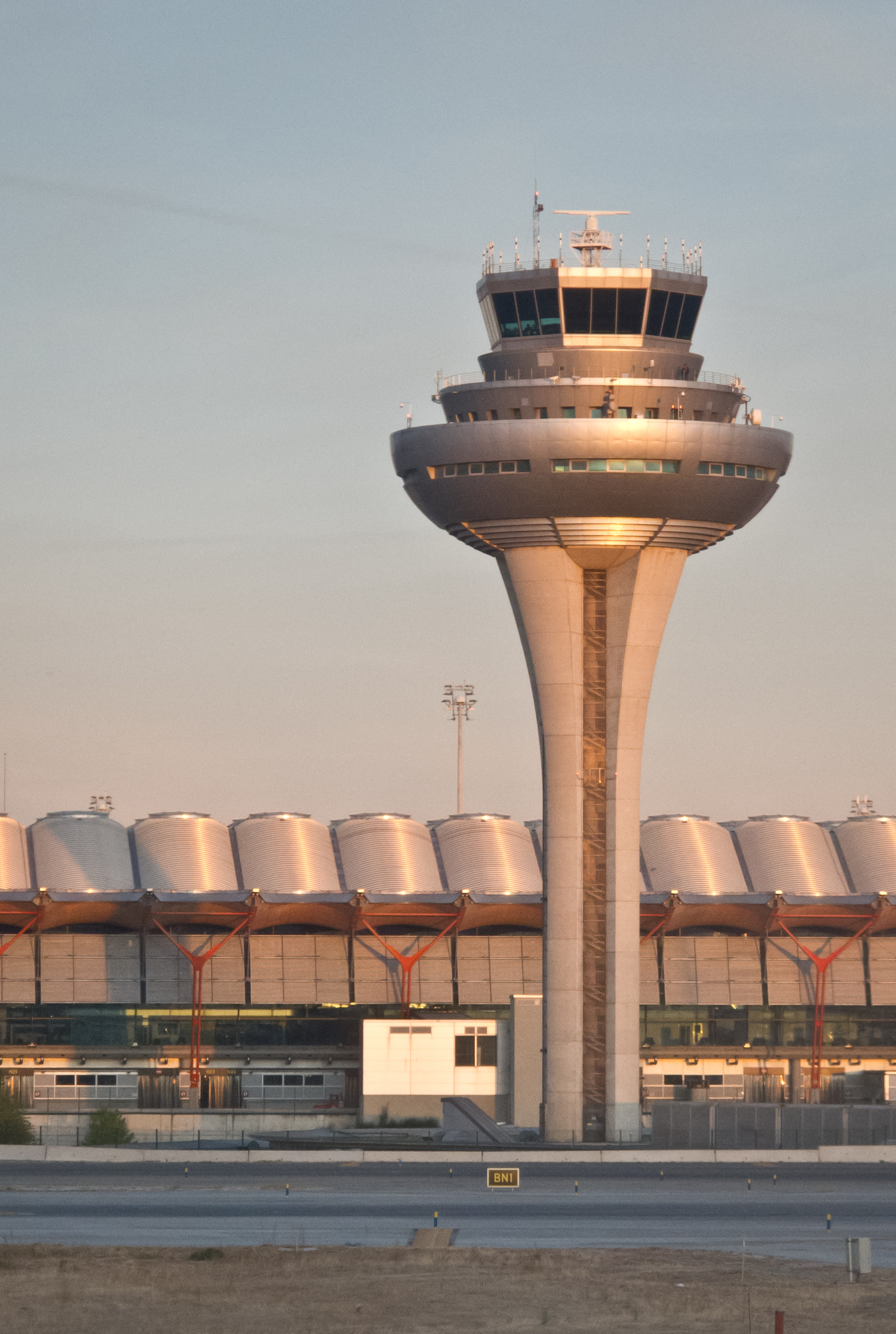 Control tower of Madrid-Barajas Airport, Spain.